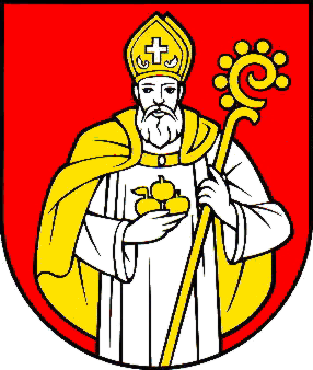 Coat of arms of Stará Ľubovňa, Slovakia